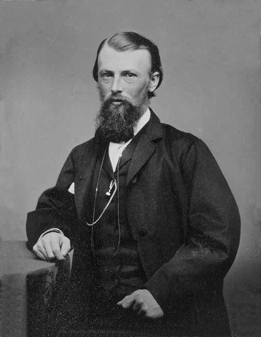 Portrait of William John Wills (1834-1861)